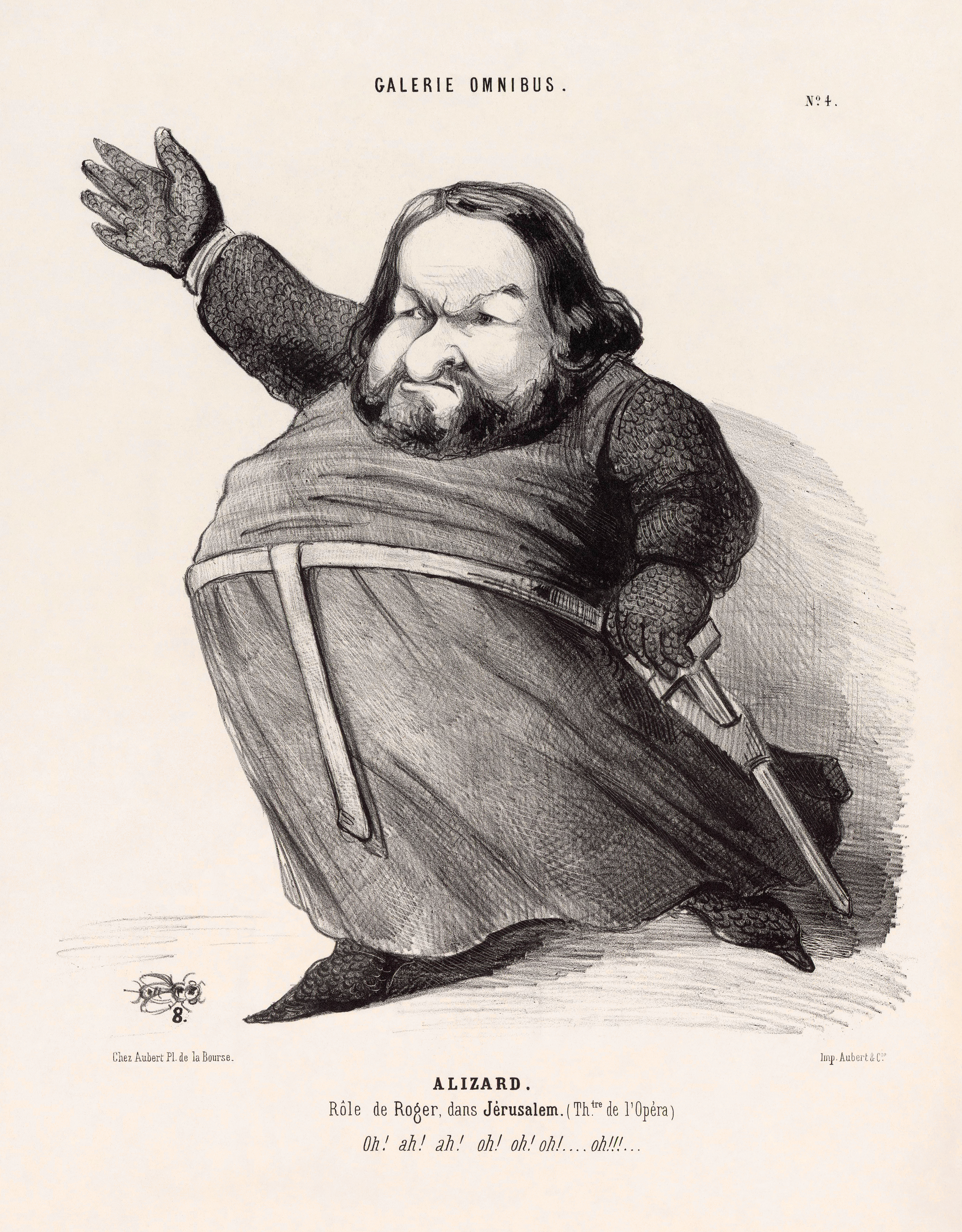 Adolphe-Joseph-Louis Alizard as Roger in Jérusalem at the Paris Opéra.